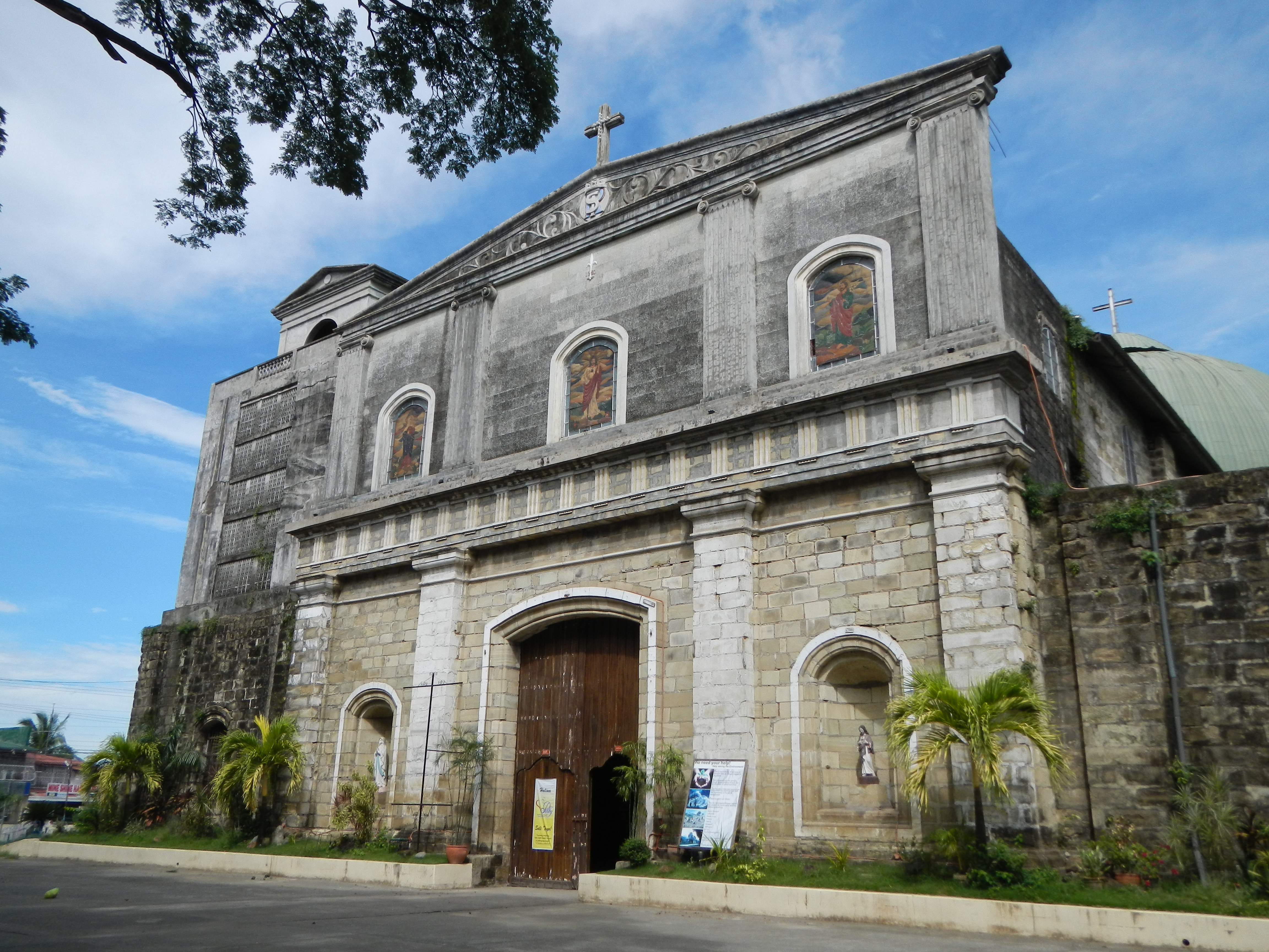 (F-1835) Saint Raymond of Peñafort Parish Church of Mangatarem [1] Coordinates: 15°47'18"N 120°17'40"E Mangatarem, Pangasinan[2] [3] [4] belongs to the [5] Roman Catholic Diocese of Alaminos[6] Website [7] Rev. Fr. Ulysses C. Cacho Oeconomus/Moderator Team Ministry 2413 Mangatarem, Pangasinan Raymond of Penyafort Raymond of Peñafort, O.P.,[8]-- In 1827 it was established a “visita” of San Carlos, in 1835, it was separated as an independent town from San Carlos.[9] [10] Titular: St. Raymond of Peñafort, January 7 History of the Church Population: 60,943 (2000 census) Titular: St. Raymond of Peñafort, January 7 Parish Priest: Fr. Windell David G. de Vera Parochial Vicar: Fr. Jonas Centeno Rev. Alexander del Castillo[11] - Mangatarem, Pangasinan[12] (a first class and largest municipality (in terms of land area) in the province of Pangasinan[13], Philippines with 2010 census population of 69,969 people Land Area: 317.50 km² ZIP Code: 2413.[14] [15] Coordinates: 15°44'20"N 120°16'57"E)